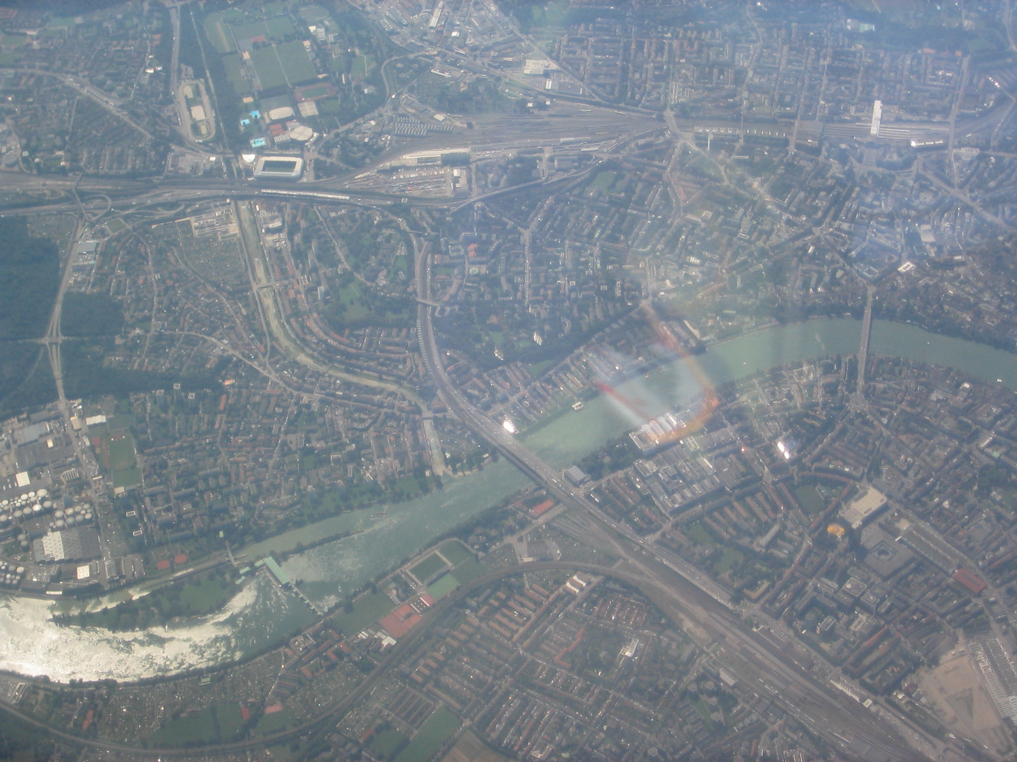 Aerial view of Rhine at Basel/Birsfelden: Schwarzwaldbrücke in the centre, Birsfelden hydro-electric power plant to the lower left, Badischer Bahnhof (train station of Basel) on the lower right.